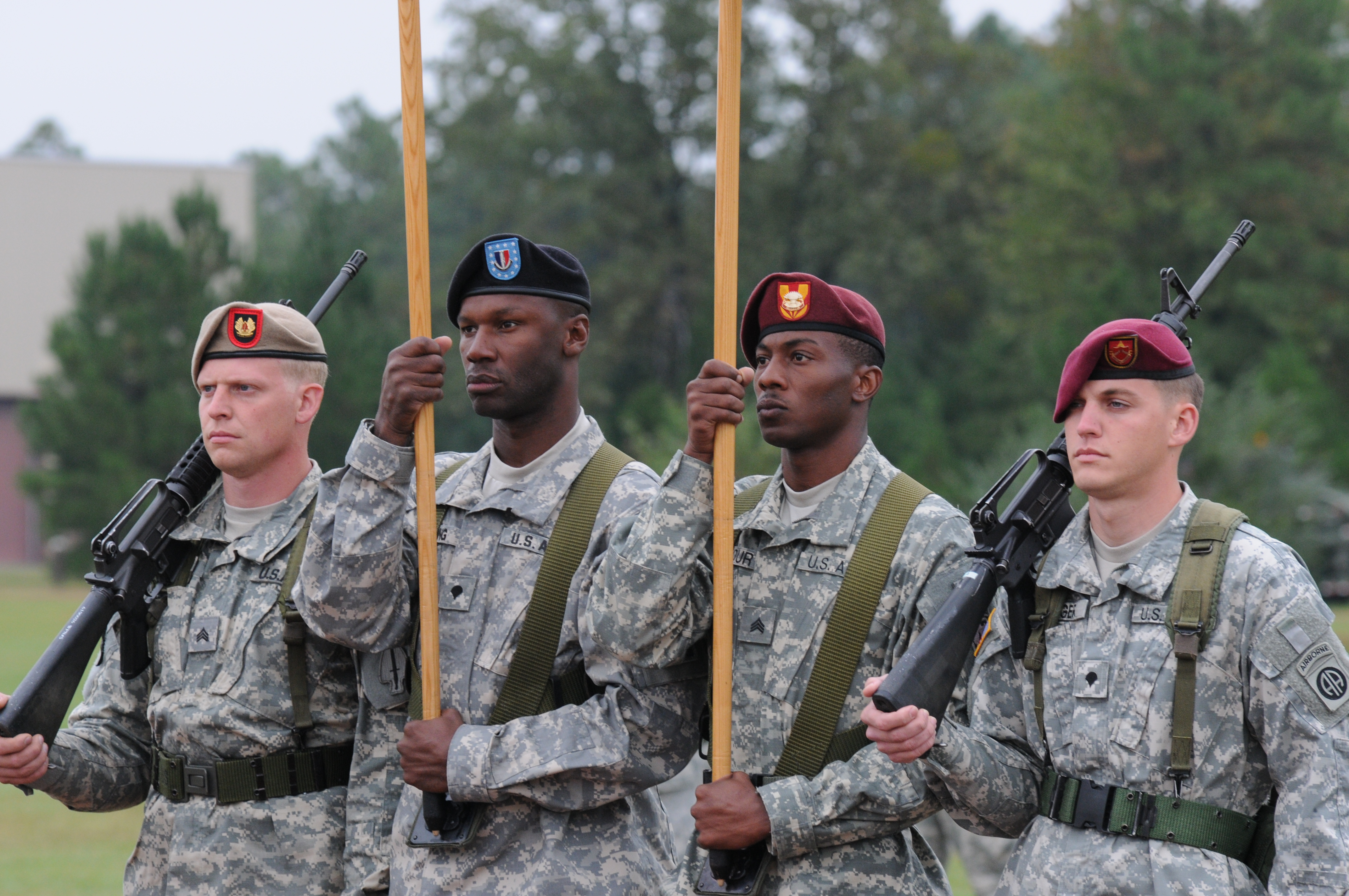 Soldiers representing the diverse missions of Fort Bragg, N.C., serve as the color guard during the Warrior Leader Course, Class 01-10 graduation, Oct. 15. See more at Year of the NCO: Junior NCOs train, learn at Warrior Leader Course